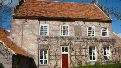 Huis Ophemert or Hoge Huys, Bovenstraat, Bronkhorst, the Netherlands